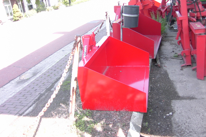 Tractor transport boxes